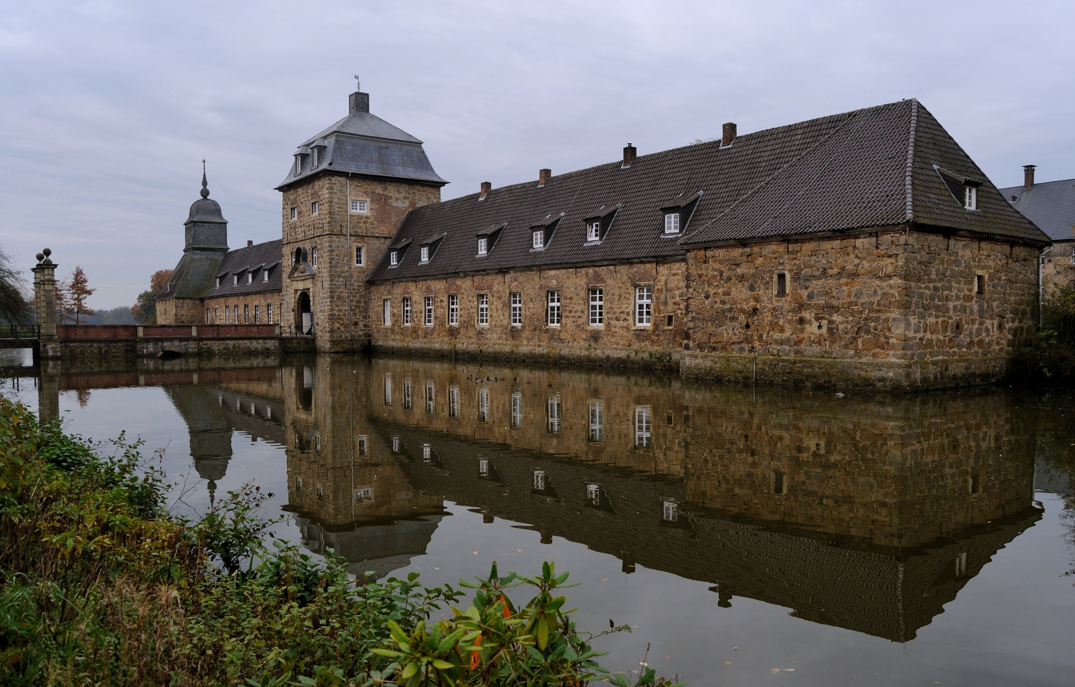 Dorsten (North Rhine-Westphalia, Germany) – Lembeck Castle – eastern wing of the Vorburg (?) This photograph was taken with a Nikon D3000.